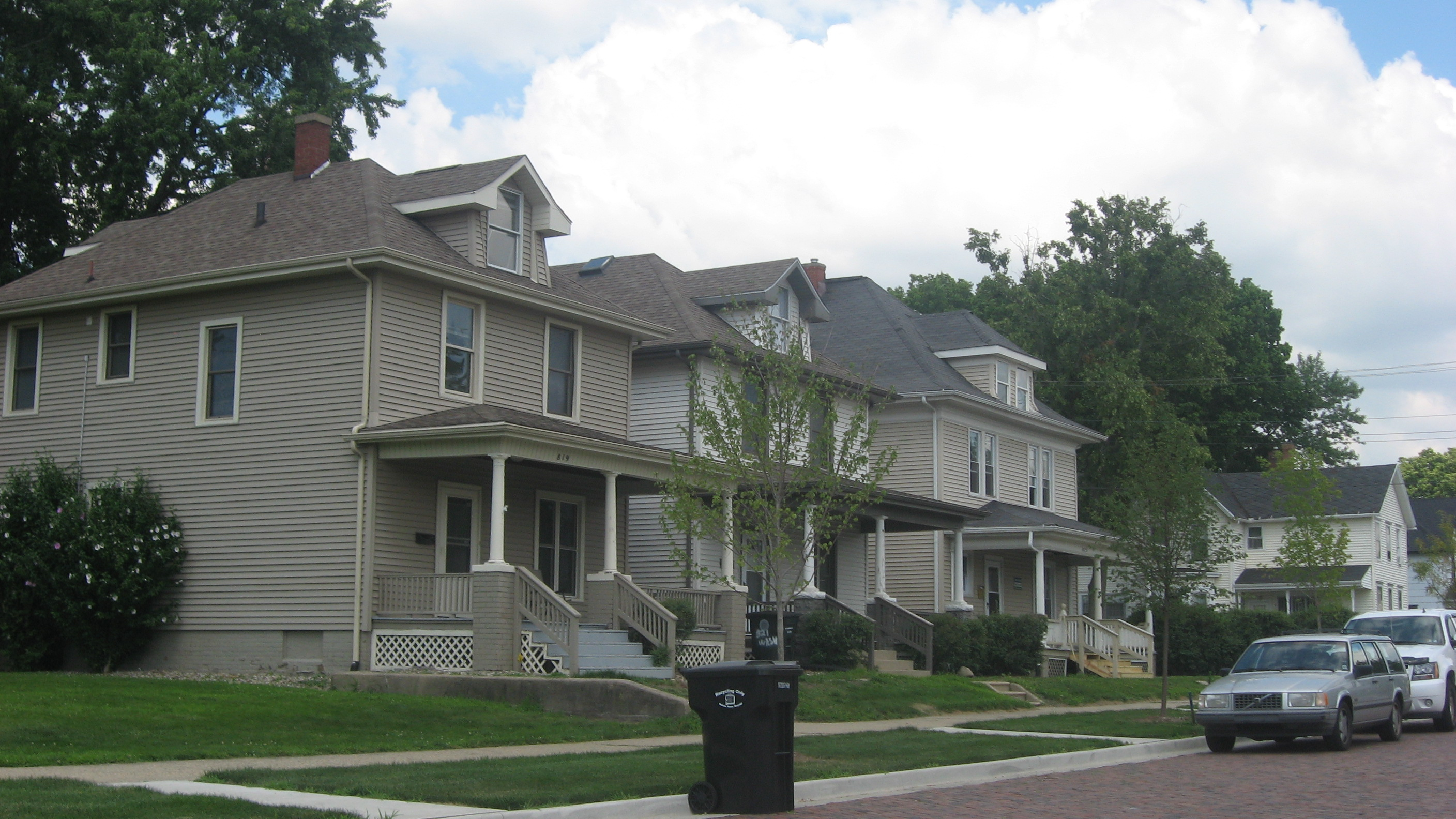 Houses at 819, 821, and 825 E. Washington Street in South Bend, Indiana, United States. Built in 1910, 1913, and 1900 respectively, they are part of the East Washington Street Historic District, a historic district that is listed on the National Register of Historic Places.